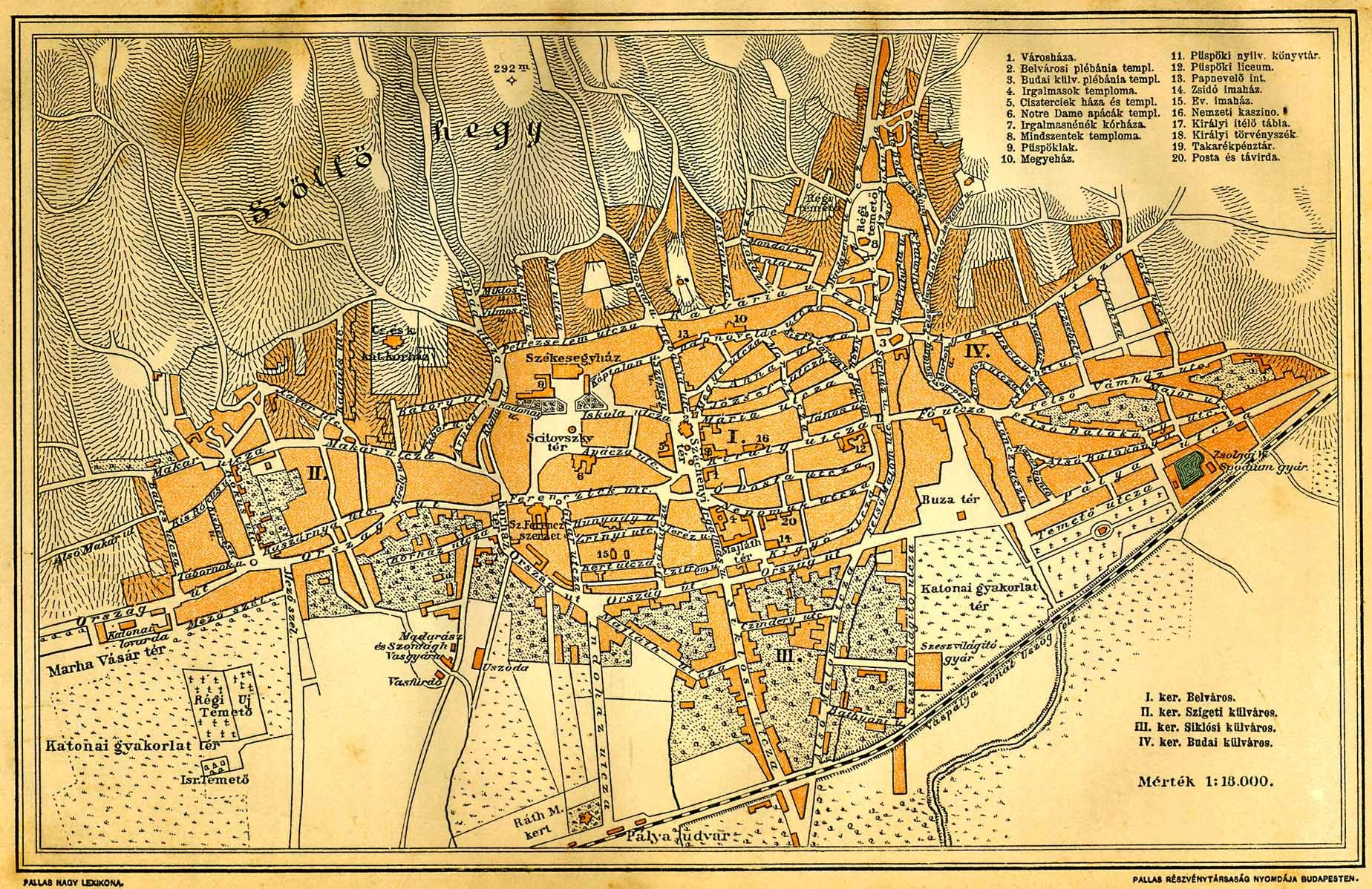 19th century map of Pecs, Hugary.